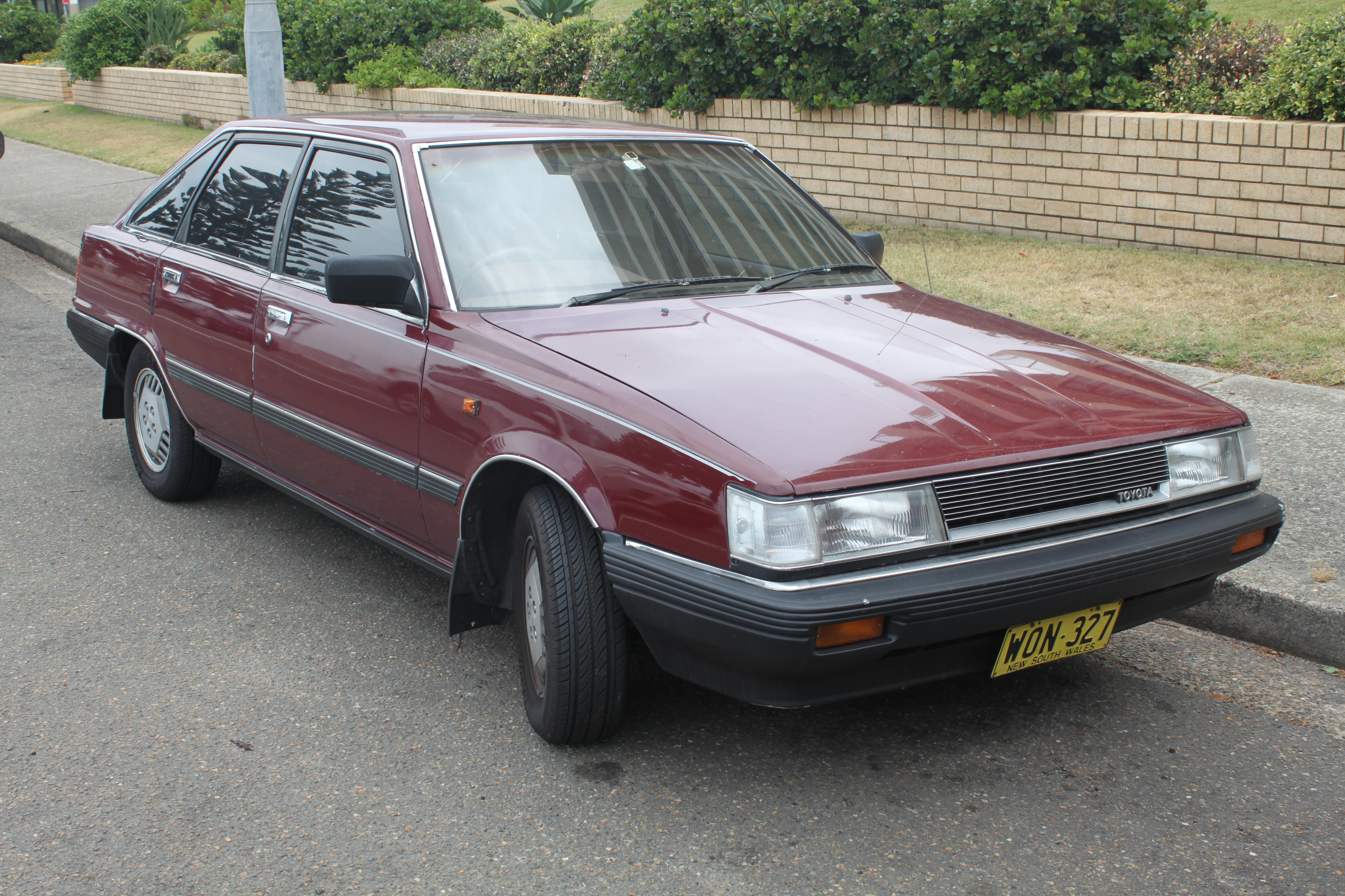 Toyota Camry SV11 GLi